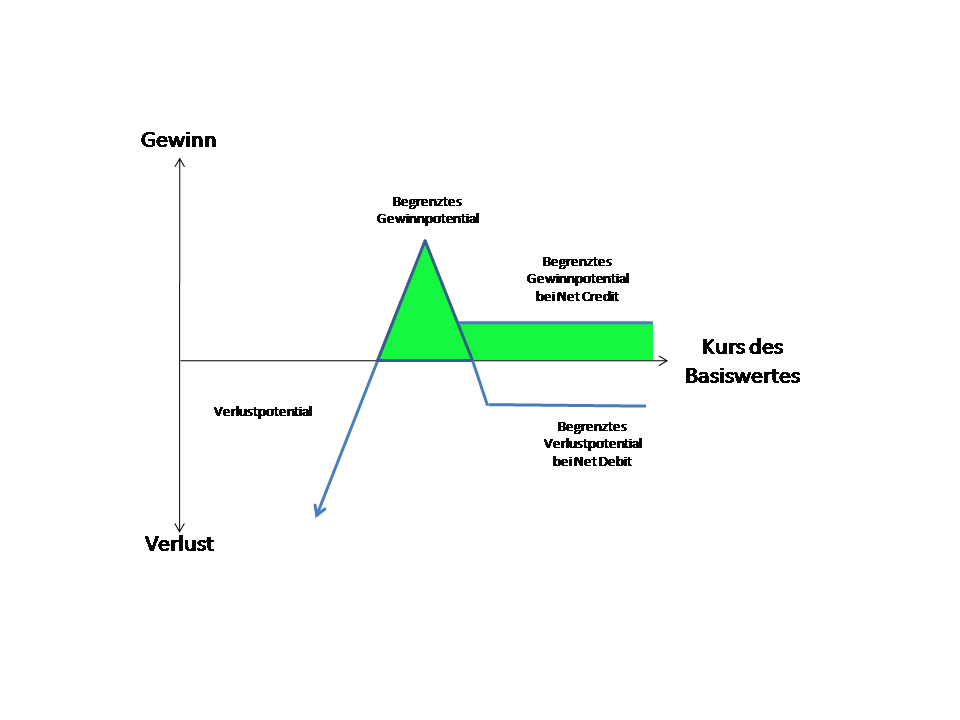 Ratio Put Spread